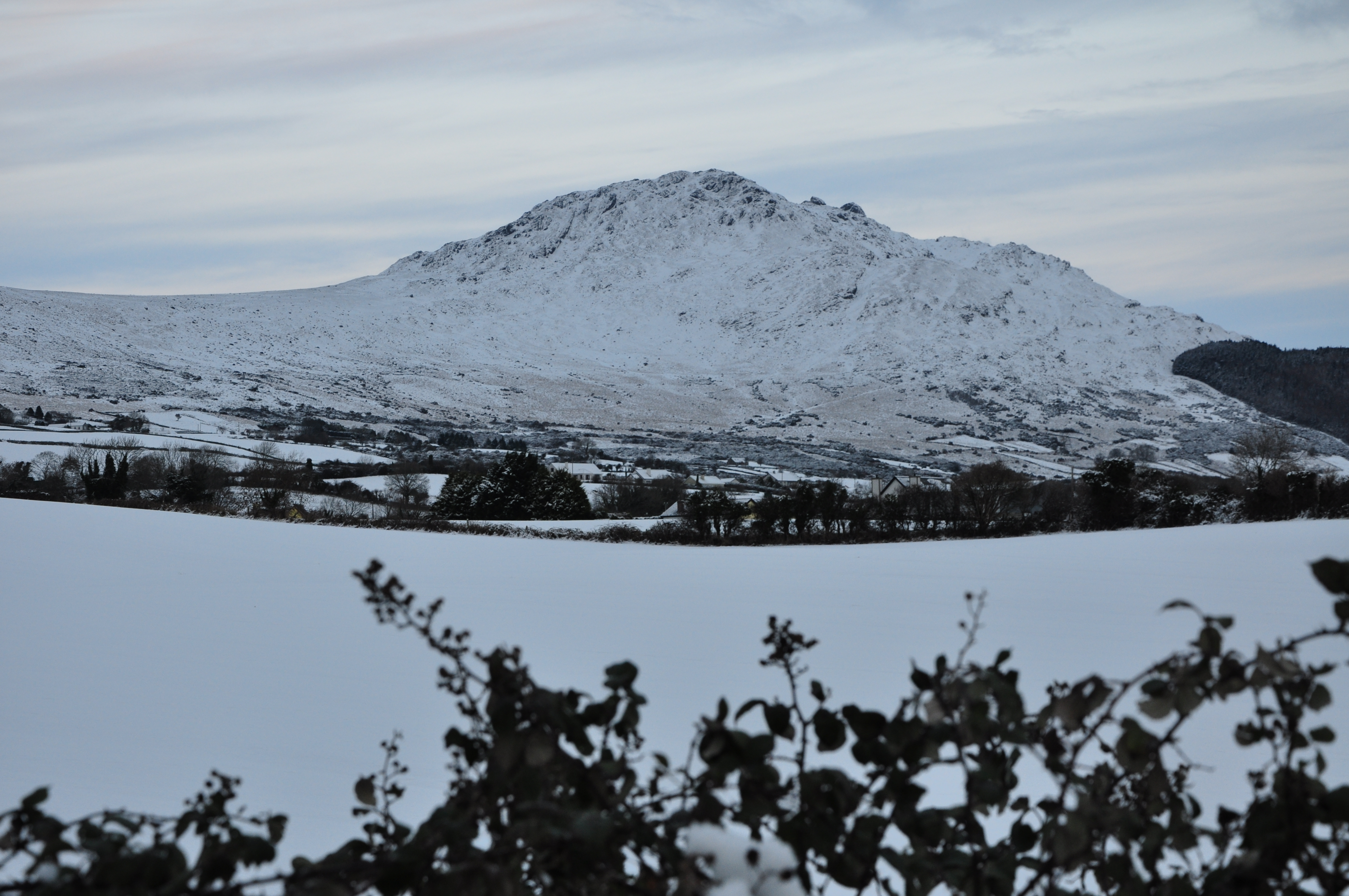 Photo of Slieve Foy, Carlingford in December 2010